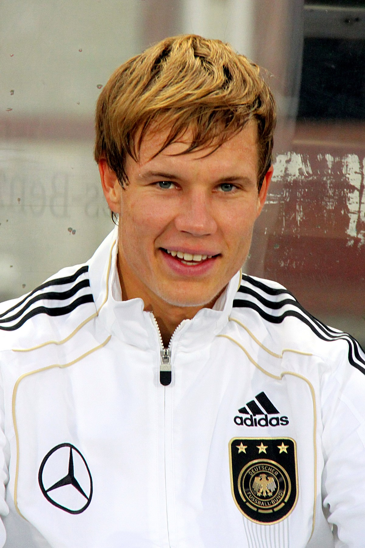 Holger Badstuber (FC Bayern Munich), german national football team